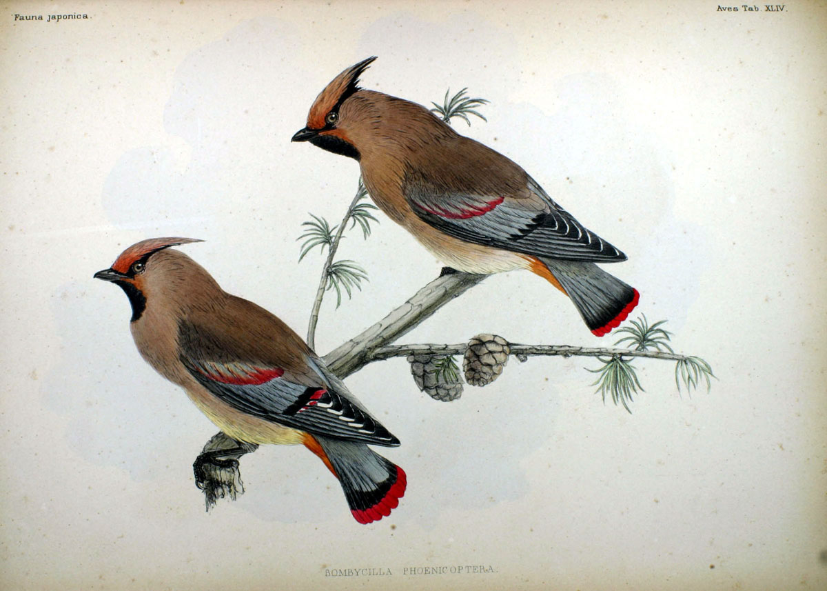 An illustration of Bombycilla phoenicoptera (=Bombycilla japonica) from Fauna Japonica